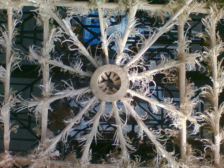 Incrinate details of Singkaban arch made in Barihan Malolos